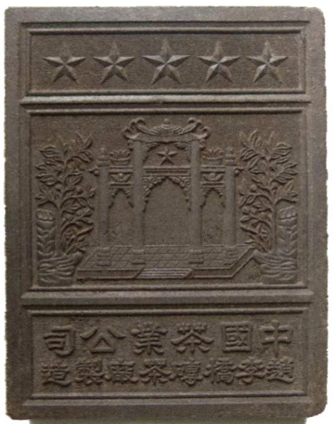 Author: User:Sjschen, Tea brick made of pulverized black(red) tea